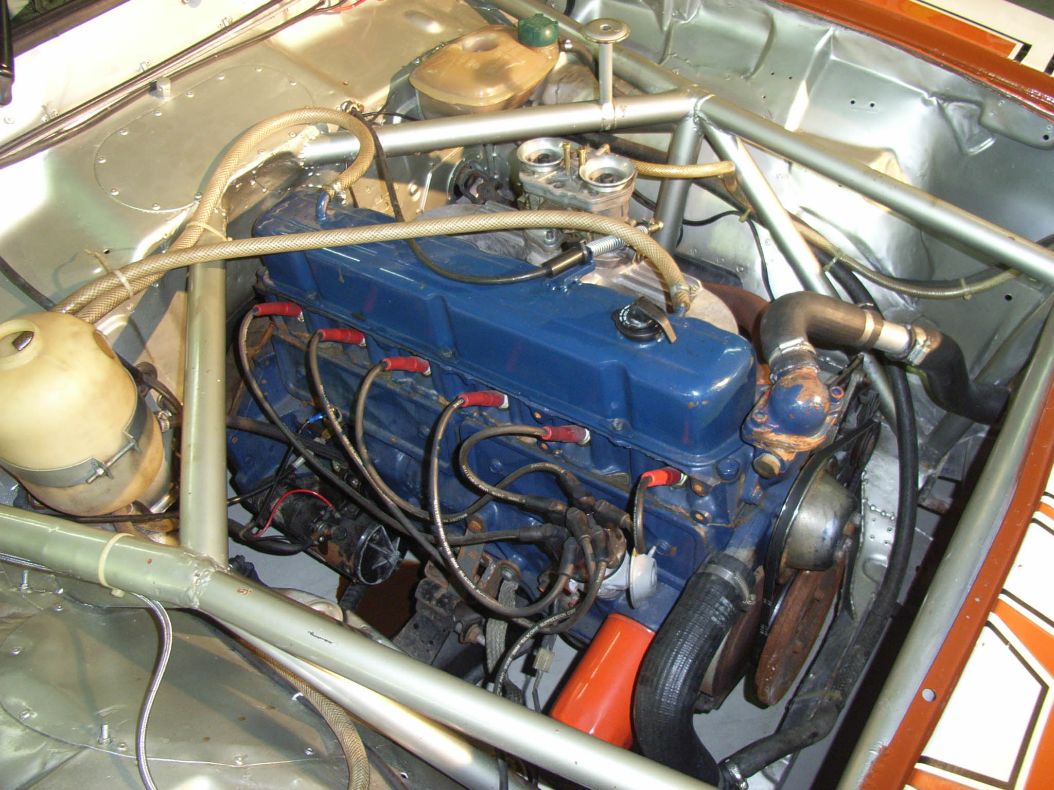 Stock Car Brasil: the Opala 250-S engine (L6 engine) of Wilson Fittipaldi Junior's Chevrolet Opala in 1992Owner: Museu do Automobilismo Brasileiro